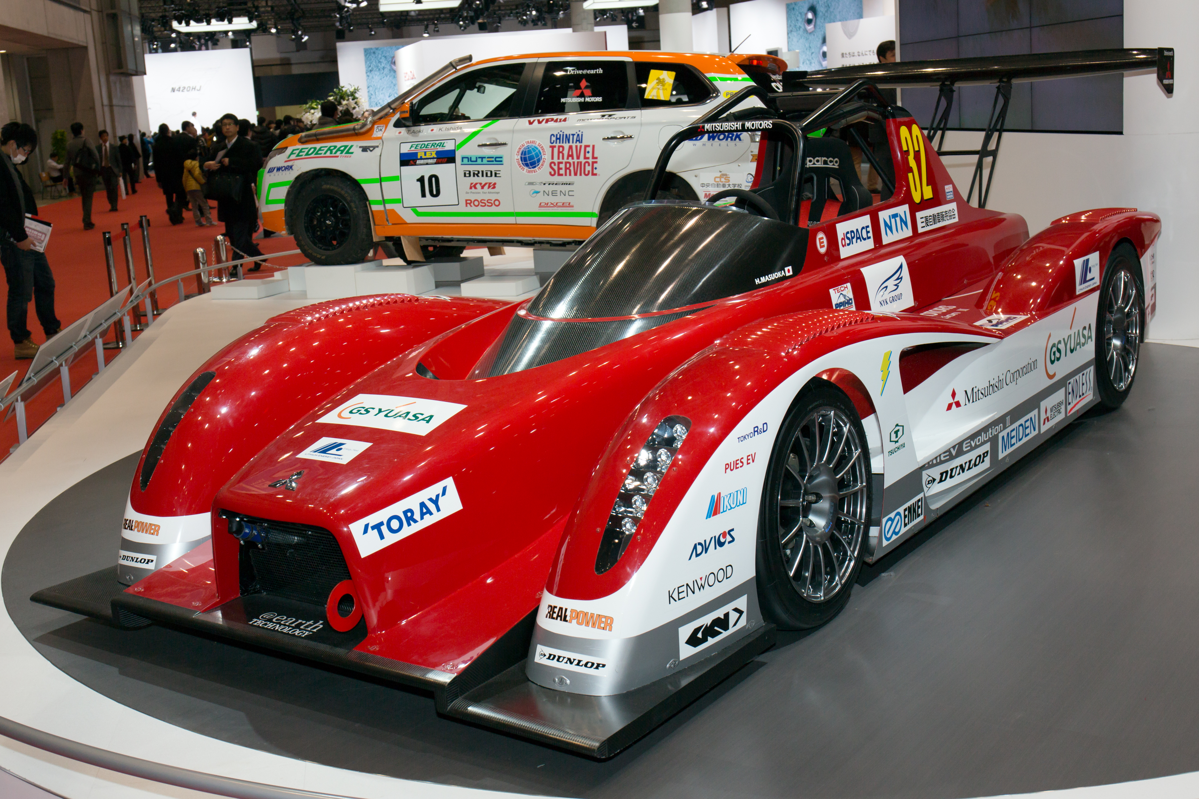 Tokyo Motor Show 2013: Mitsubishi MiEV Evolution II